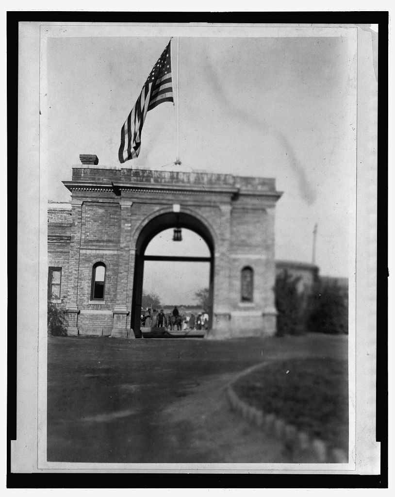 Photograph shows the large gatehouse at the U.S. Legation, Beijing, China, with the United States flag flying from the roof.